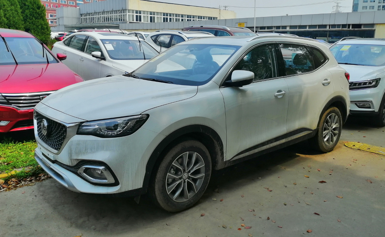 MG HS photographed in Shanghai, China.